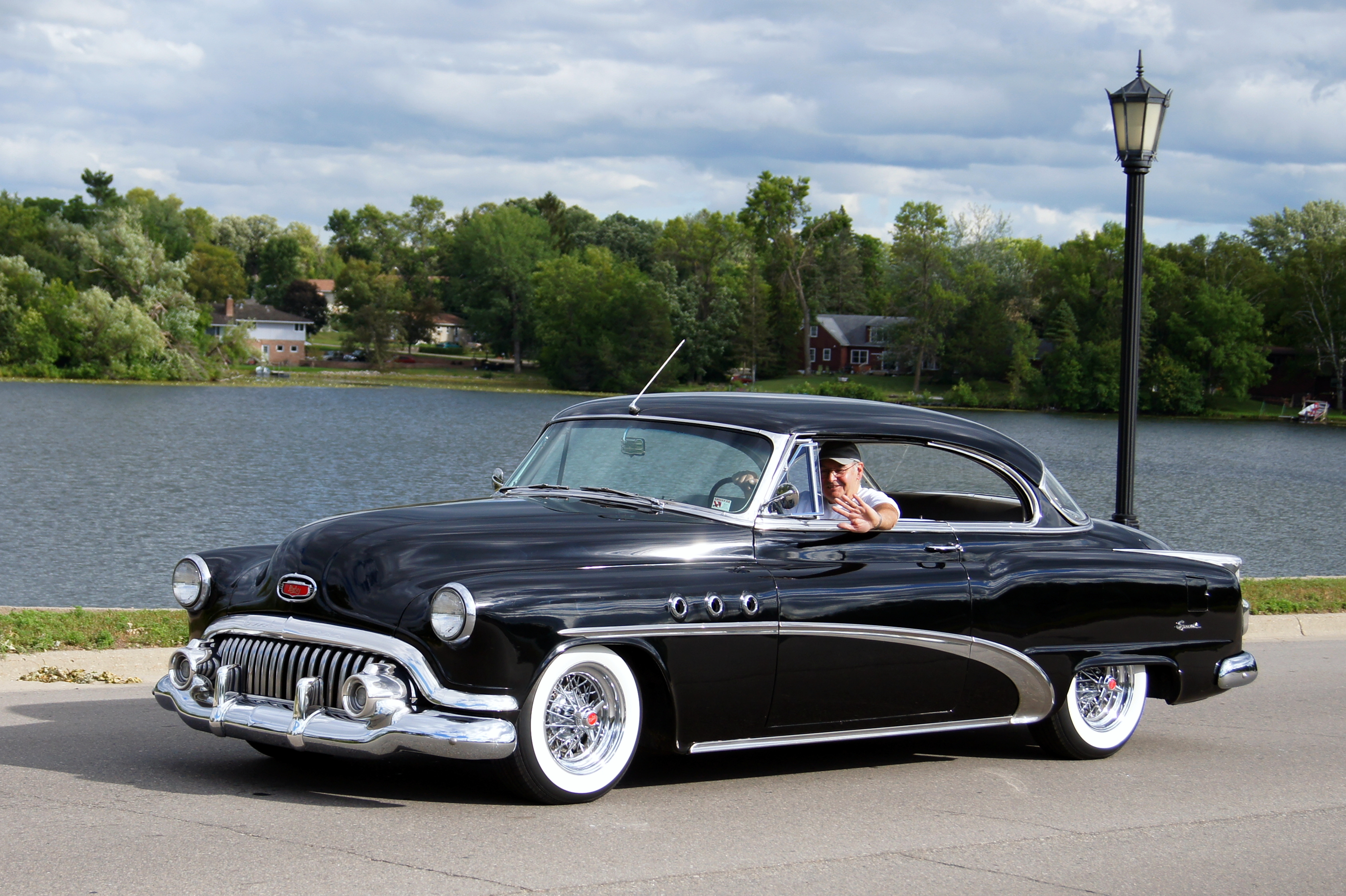 27th Annual New London to New Brighton Antique Car Run Automobile Parade through New London. The night before the Antique Car Run begins. More Car Pictures